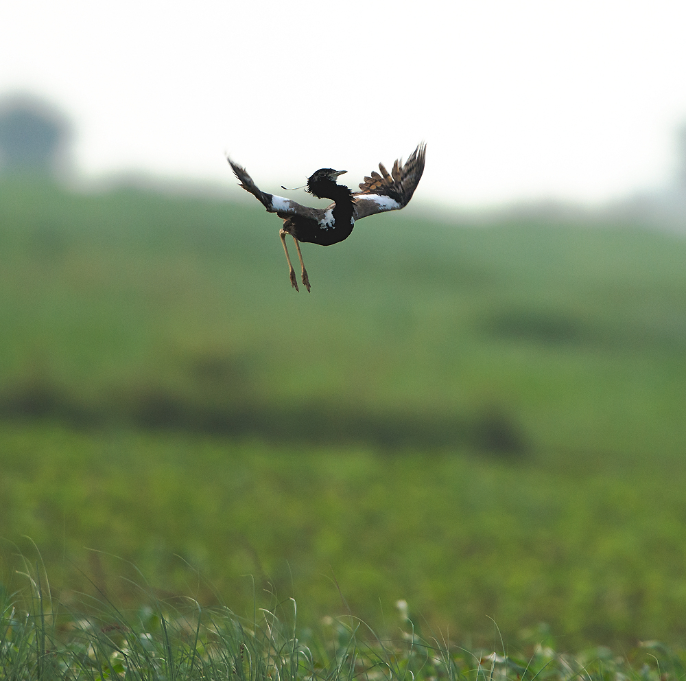 Male of Lesser Florian while tooting. Lesser Florican (Sypheotidesindica) a highly threatend member of the Bustard Family in courtship display. The male birds have this fantastic courtship display in grasslands during Monsoons only. This handsome male was shot near Village Shonkhalia, District Ajmer, Rajasthan, one of the very few locations where a few dozens of these birds exist.